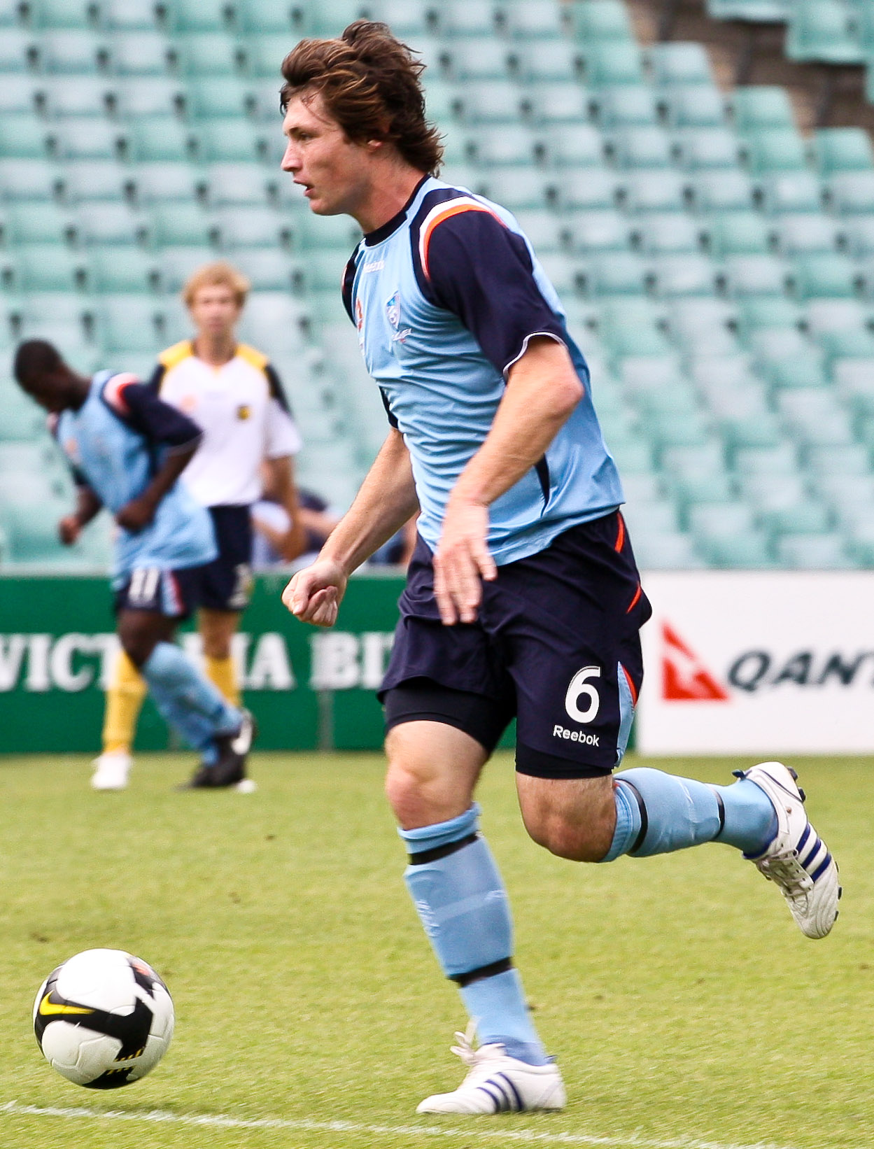 Chris Payne playing for the Sydney FC youth team.